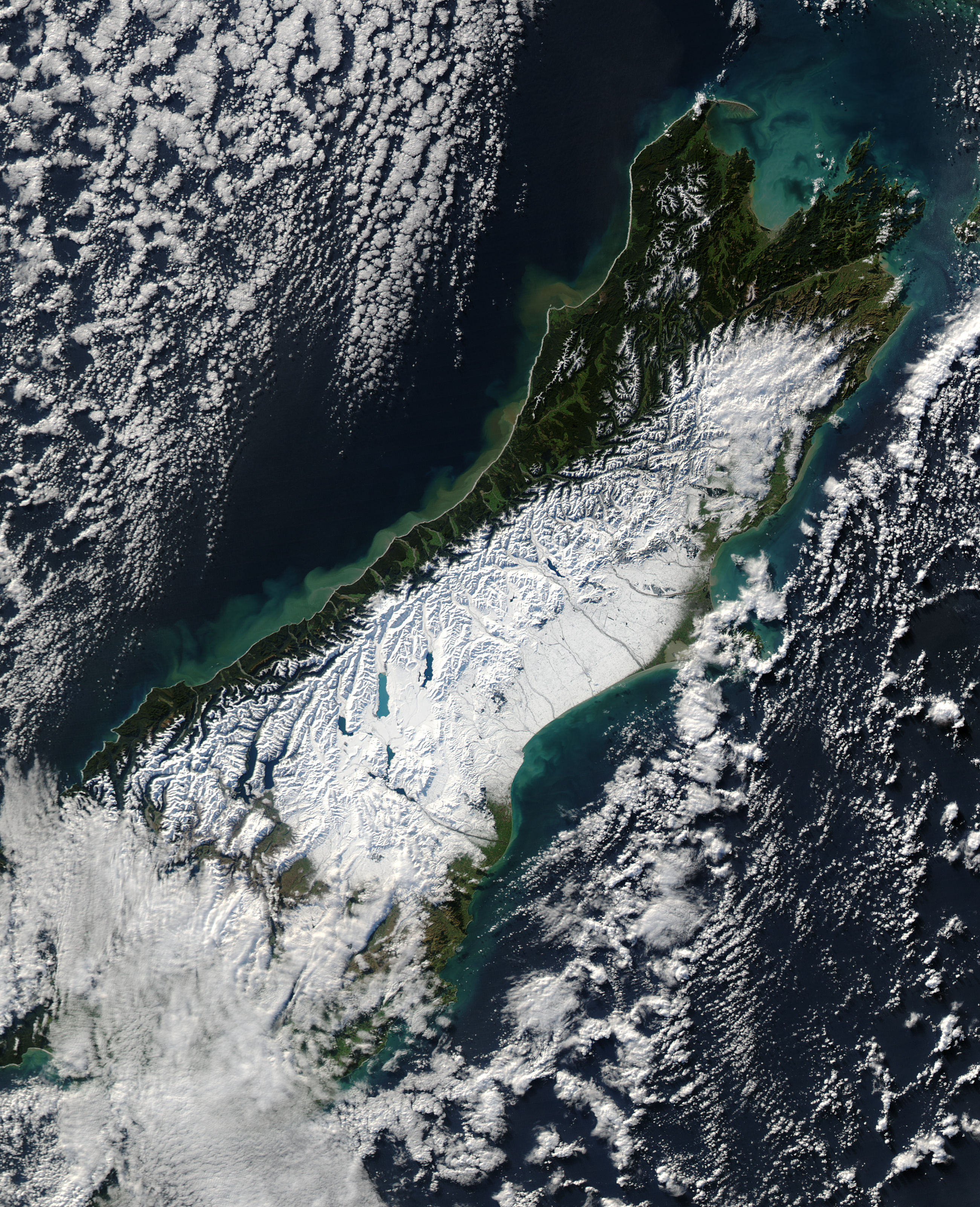 Satellite image of the South Island of New Zealand in June 2006. NASA's description: A powerful winter storm swept across New Zealand on June 12, 2006. The storm brought strong winds that gusted up to 130 kilometers per hour (80 miles per hour) and at least one tornado, reported the Australian Broadcasting Corporation (ABC). Heavy rains triggered floods and landslides along the western coast of South Island, and snow blanketed the central part of the island. This wild weather, said the ABC, knocked out power in Auckland, on North Island (not pictured), and throughout the Canterbury region, shown here. On June 13, skies were clear when the Moderate Resolution Imaging Spectroradiometer (MODIS) on NASA’s Aqua satellite captured this photo-like image of South Island, New Zealand. Snow covers the Southern Alps, making the finger-like glacier lakes stand out like sapphires against a field of white. The snow stretches to the sea on the east side of the island. It is here, in the river basins and valleys east of the mountains and around Christchurch, that deep snow closed roads and isolated communities, say news reports. The impact of heavy rain along the western shore of South Island is also evident in this image. Mud-laden water, full of sediment from landslides and run-off, flows into the Tasman Sea from the many streams that run out of the mountains. In the ocean, the muddy water is tan and fades to a cloudy green as the sediment disperse